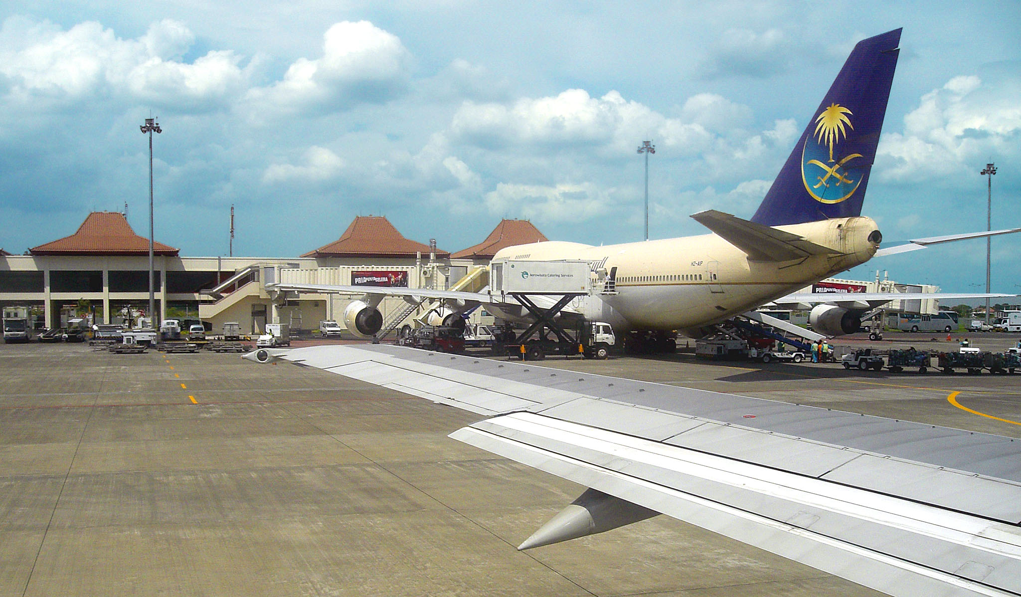 The apron of Juanda International Airport, Surabaya, Indonesia. Showing Saudi Arabian Airlines Boeing 747 refueling and reloading food, beverage, and cargo. Saudi Airlines particularly serving Indonesian Hajj pilgrims to Mecca.